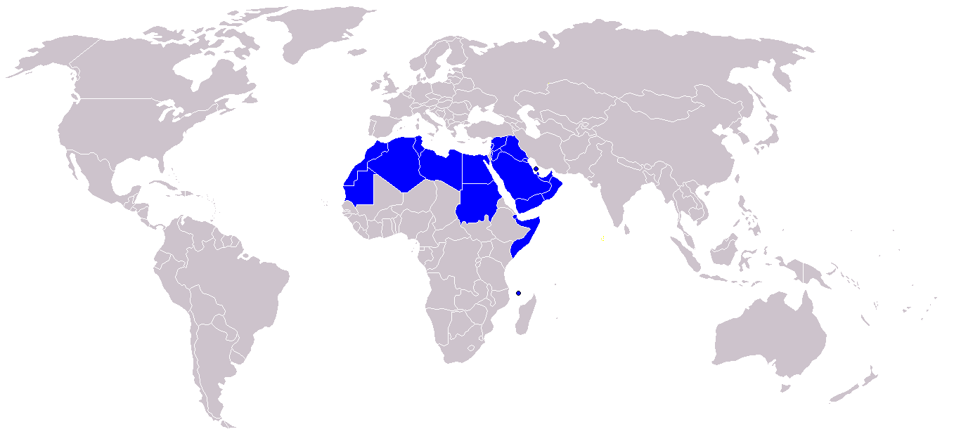 Arabic world